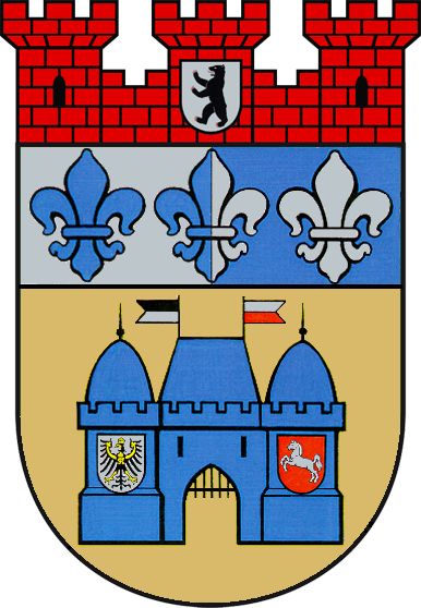 Coat of arms of Charlottenburg-Wilmersdorf, a Boroughs of Berlin